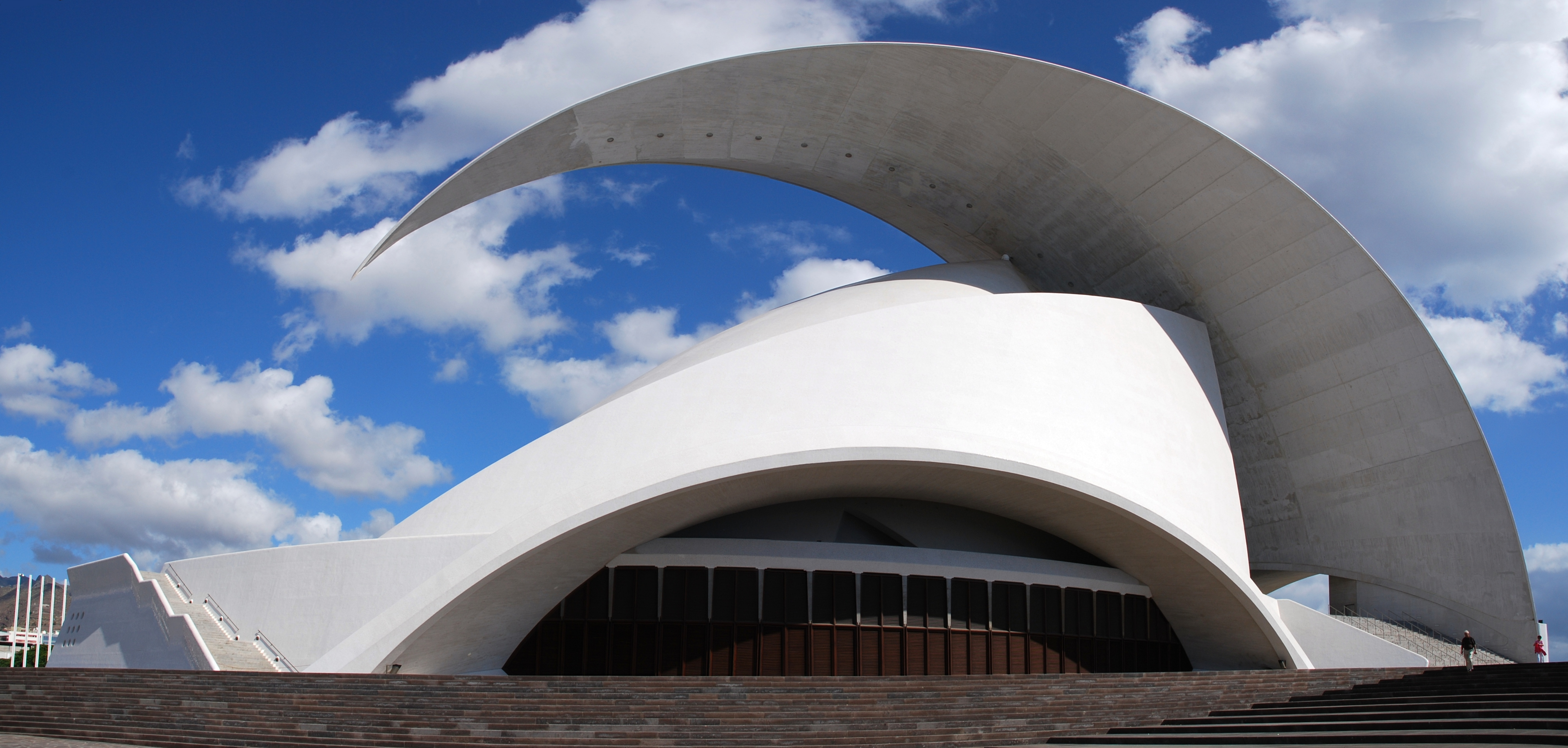 TheAuditorio de Tenerife, in Santa Cruz de Tenerife (Spain).